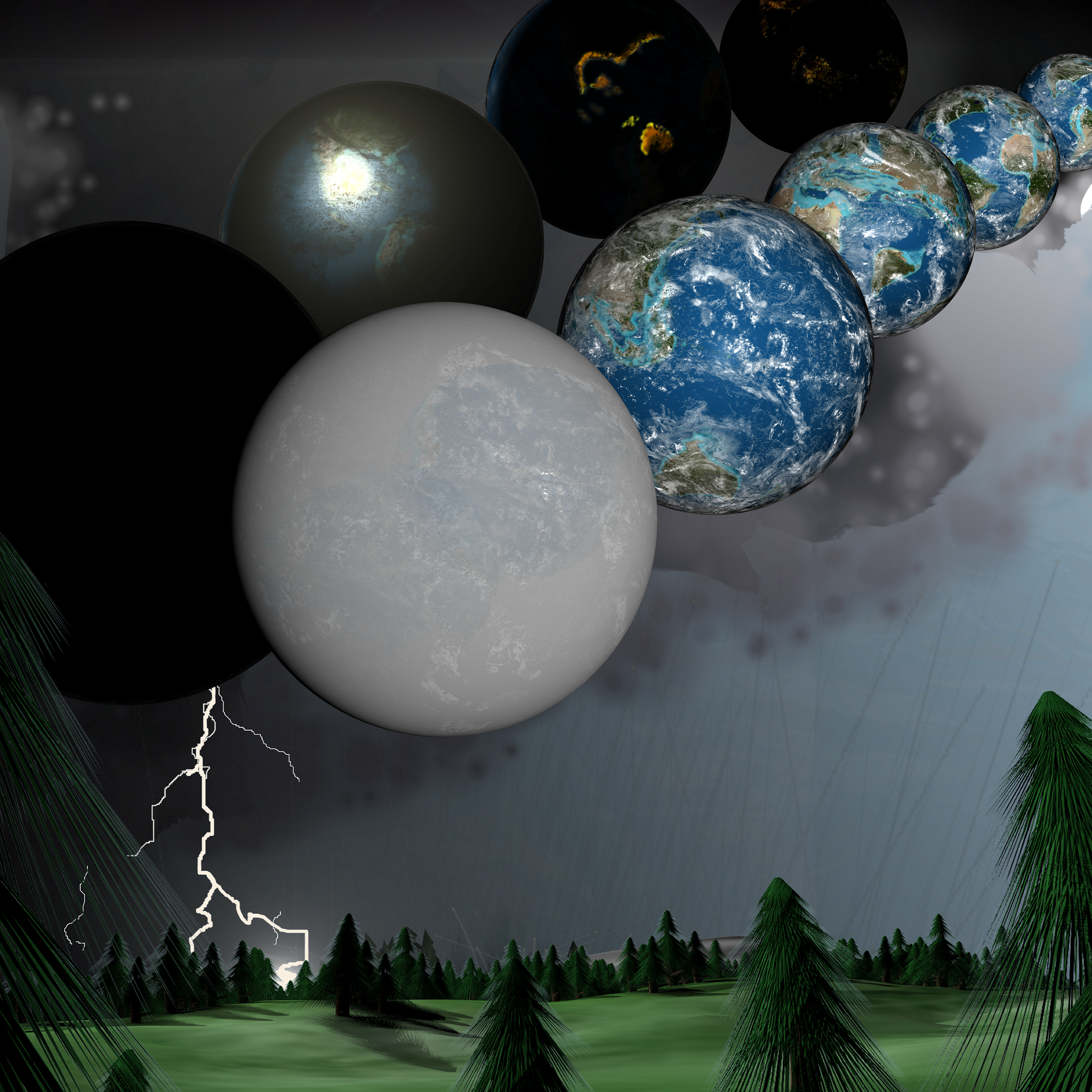 Illustration of the Chicxulub crater impact event including just before and after the collision